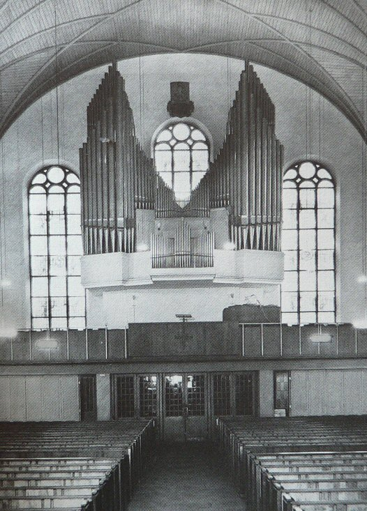 Prospect of the former Walcker-Organ in Katharinenkirche, Frankfurt am Main, Germany Own photography ca. 1973